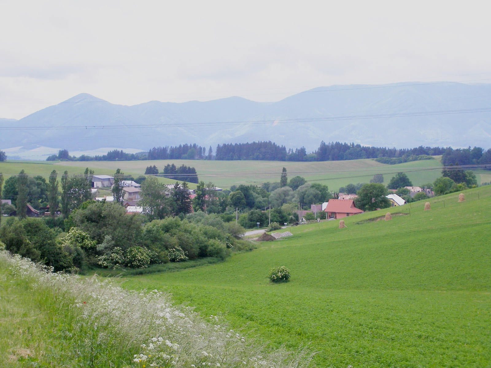 Horný Kalník - view from south-east